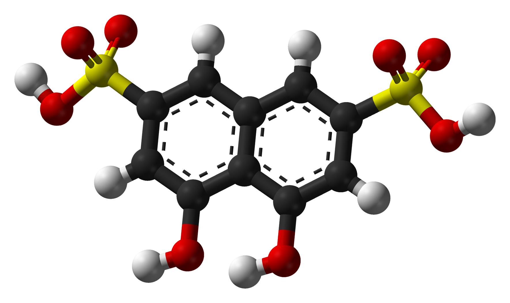 Ball-and-stick model of the chromotropic acid molecule.